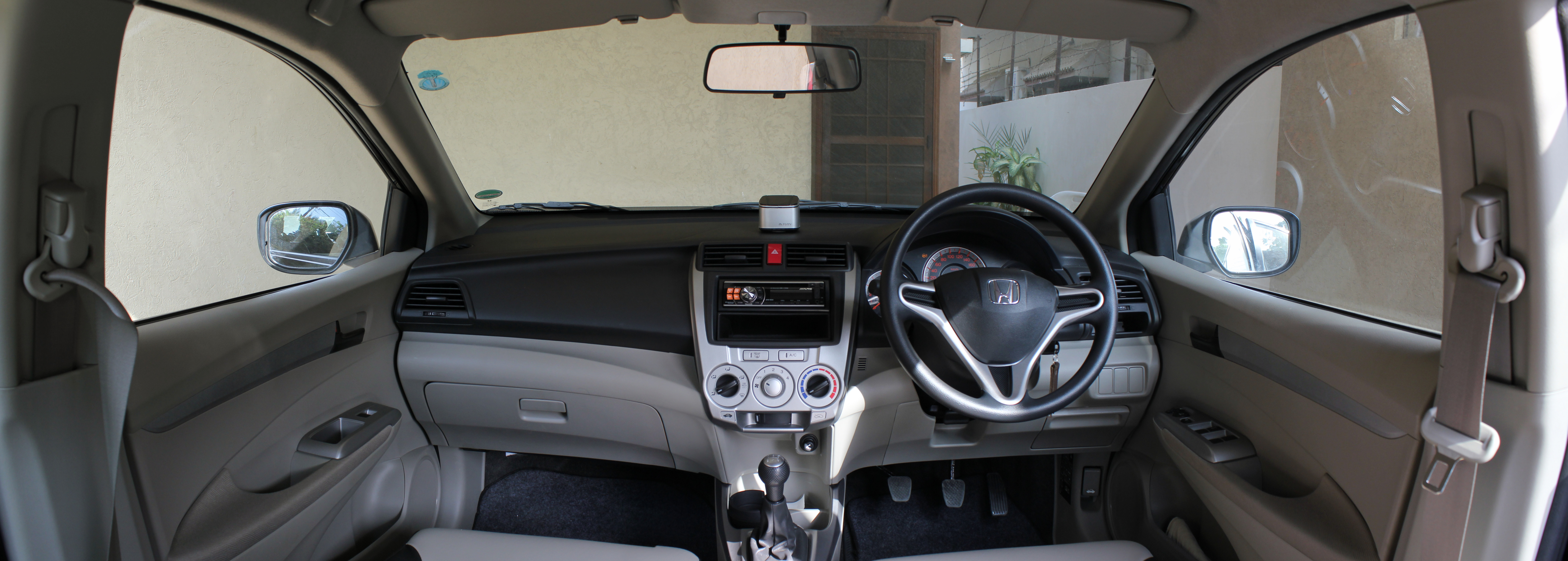 A full view of the interior of Honda City 5th generation.